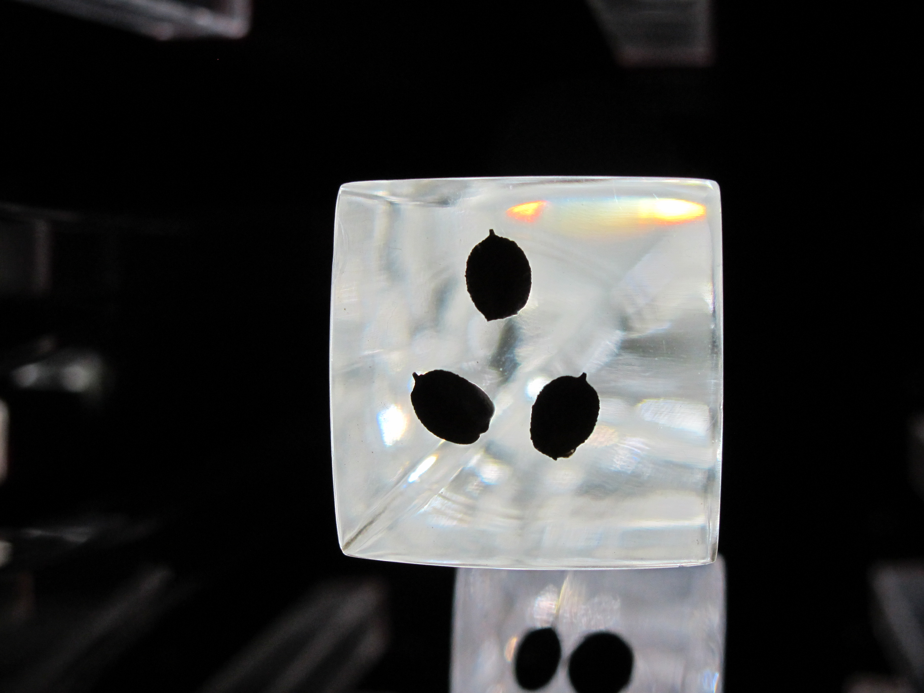 UK Pavilion of Expo 2010